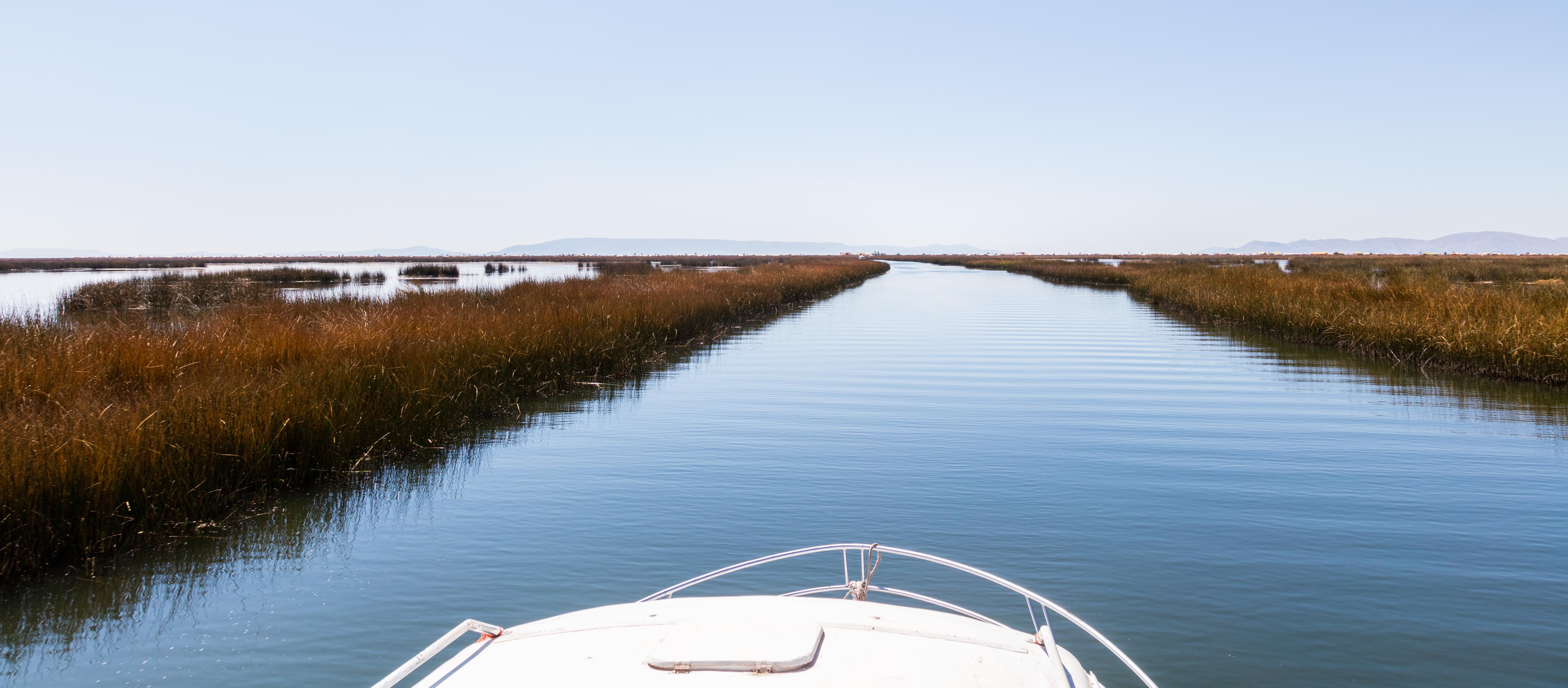 Titicaca lake, Puno, Peru